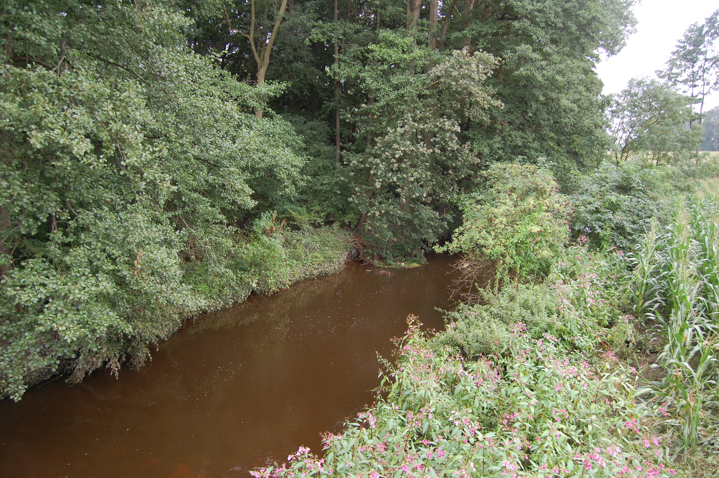 Emsdettener Muehlenbach